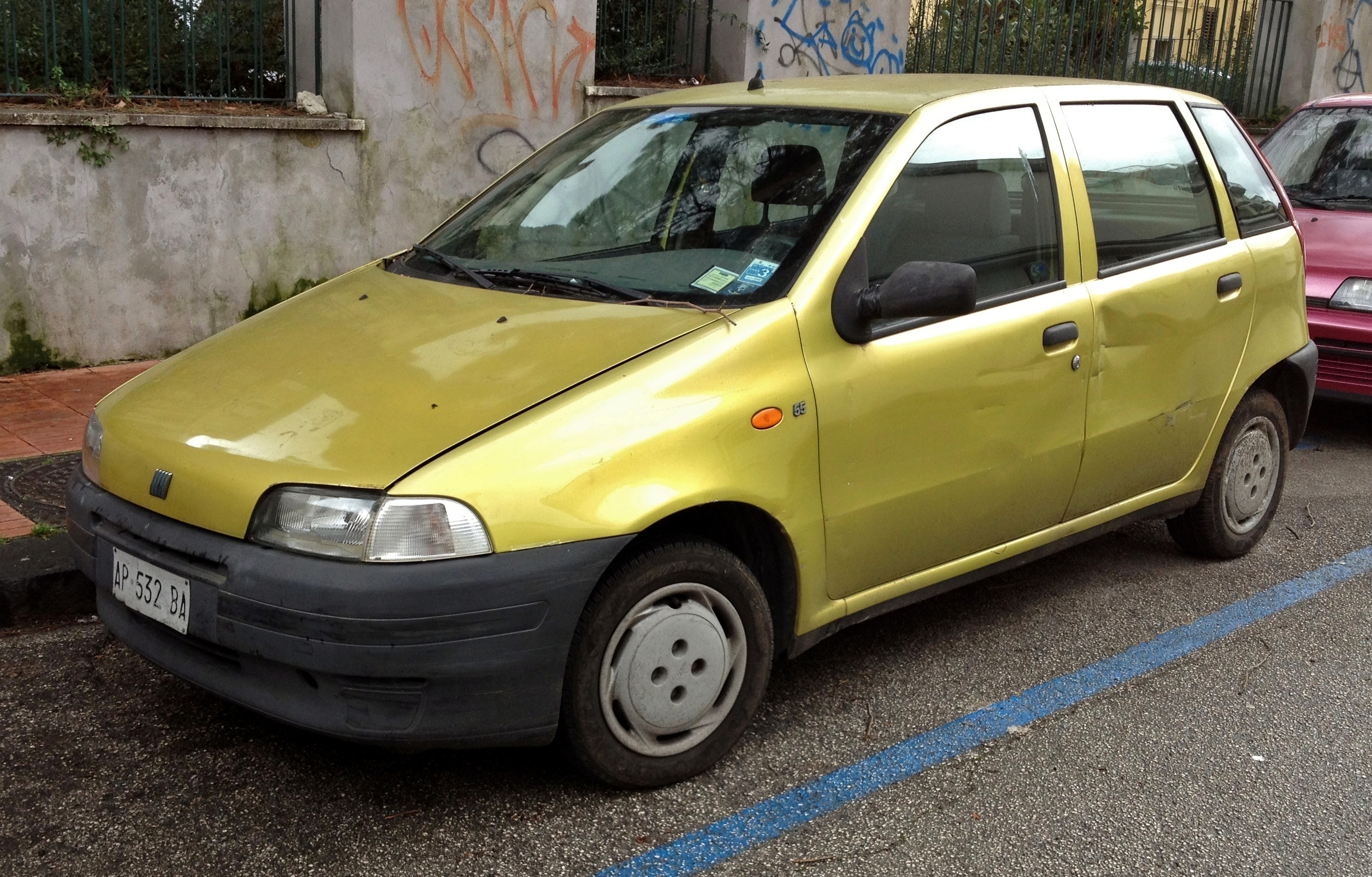 Fiat Punto 5-door 1st generation